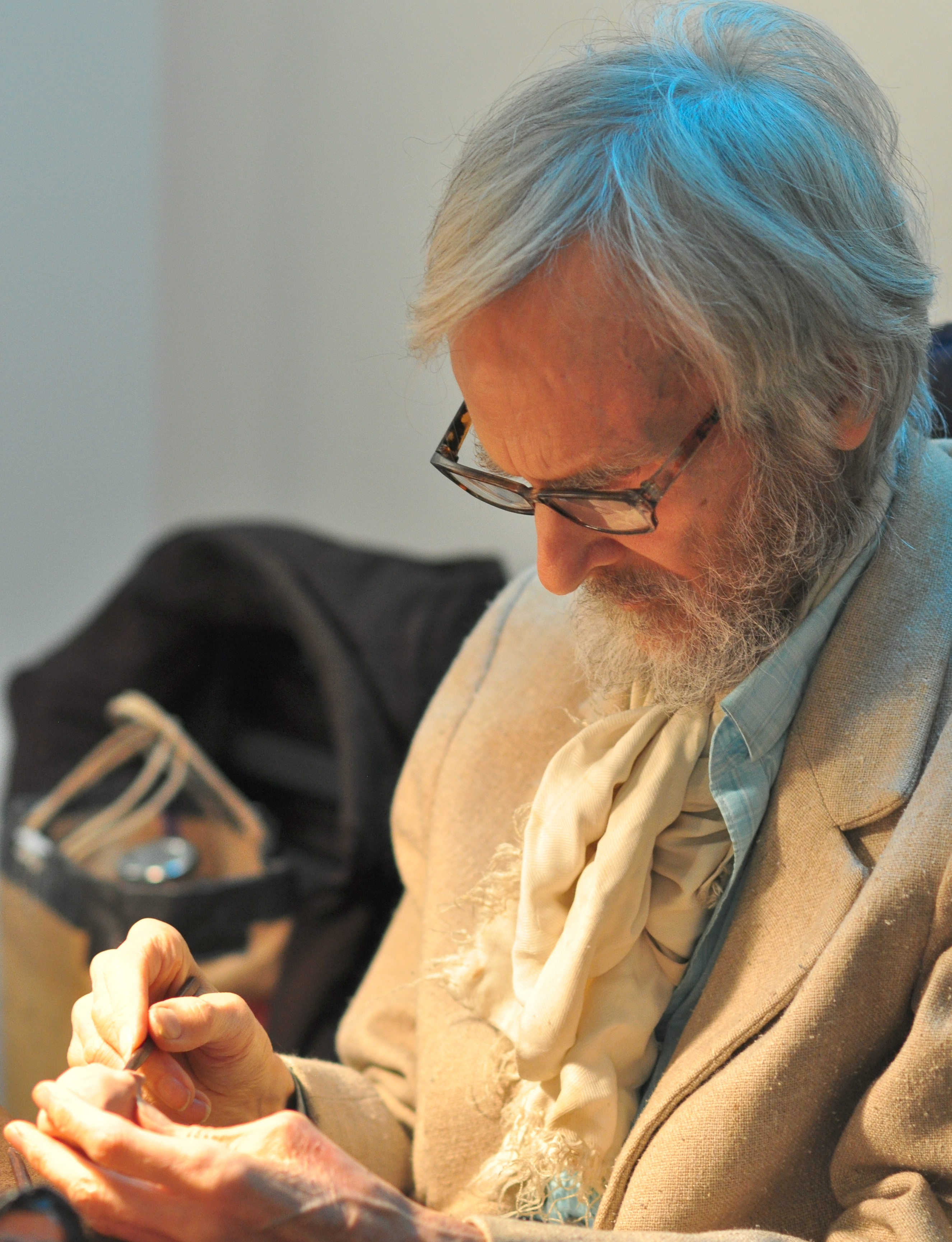 Claymation animator Bruce Bickford at an opening of a solo art exhibition at Vermillion, Seattle Washington, U.S.